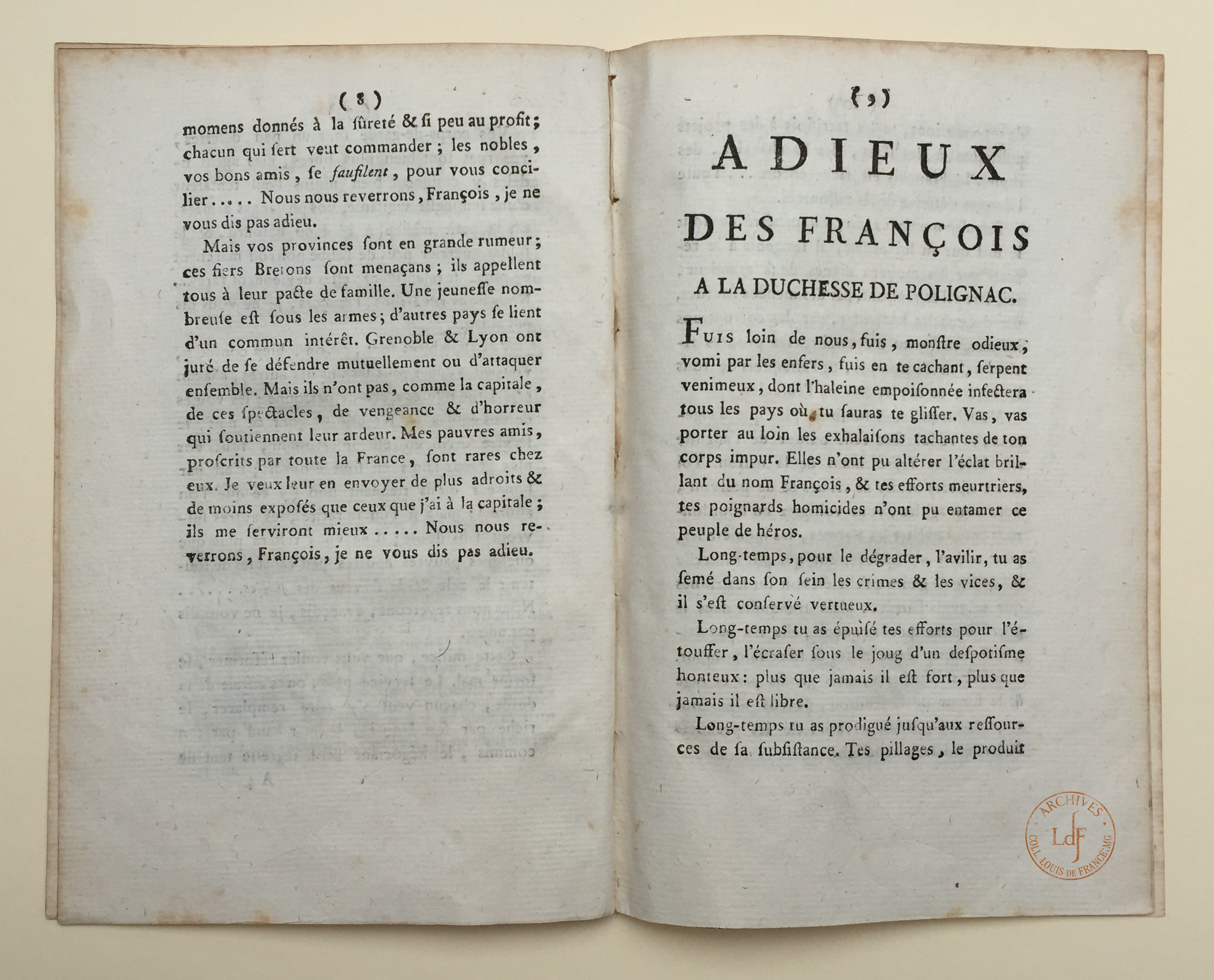 CLdf-PB0004: Pamphlet, Adieux de madame la duchesse de Polignac aux françois, suivis des adieux de François à la même. Entry page of the second part "Adieux des François a la duchesse de Polignac (Farewell of the french people to the countess de Polignac)" of the Pamphlet "Adieux de madame la duchesse de Polignac aux françois, suivis des adieux de François à la même". The publication was printed anonymous in the year 1789 under the pseudonym "Par l´Auteur de sa Maladie". It contains Text against the hated countess, who had left Versailles and France for safety reasons directly after the storming of the Bastille. The Pamphlet is subdivided into the two parts "Adieux de madame la duchesse de Polignac aux François (Farewell of the countess de Polignac to the people of France)" and "Adieux des François a la duchesse de Polignac (Farewell of the french people to the countess de Polignac)", wich is shown here. Extract of the Text, [p. 9, breaks 1, 2, 3] Citation: "Fuis loin de nous, fuis, monstre odieux, vomi par les enfers, fuis en te cachant, serpent venimeux, dont l'haleine ampoisonnée infectera tous les pays où tu sauras te glisser. Vas, vas porter au loin les exhalaisons tachantes de ton corps impur. Elles n'ont pu altérer l'éclat brillant du nom François, et tes efforts meurtriers, tes poignards homicides n'ont pu entamer ce peuple de héros. Long-temps, pour le dégrader, l'avilir, tu as semé dans son sein les crimes et les vices, et il s'est conservé vertueux. Long-temps tu as épuisé tes efforts pour l'étousser, l'écraser sous le joug d'un despotisme honteux: plus que jamais il est fort, plus que jamais il est libre." [...] _______________ Title: Collection Louis de France, Publications, CLdF-PB 0004: Adieux de madame la duchesse de Polignac aux françois, suivis des adieux de François à la même; Year: 1789; Dimensions: 125 x 193 mm; Pages: 14p/ vergé; Location: Dortmund/ Germany, Collection Louis de France